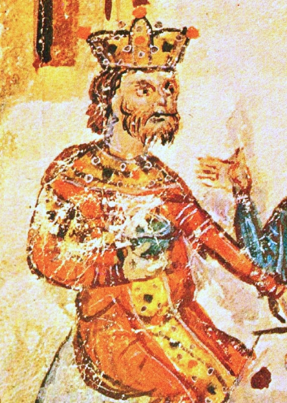 Khan Krum (detail)